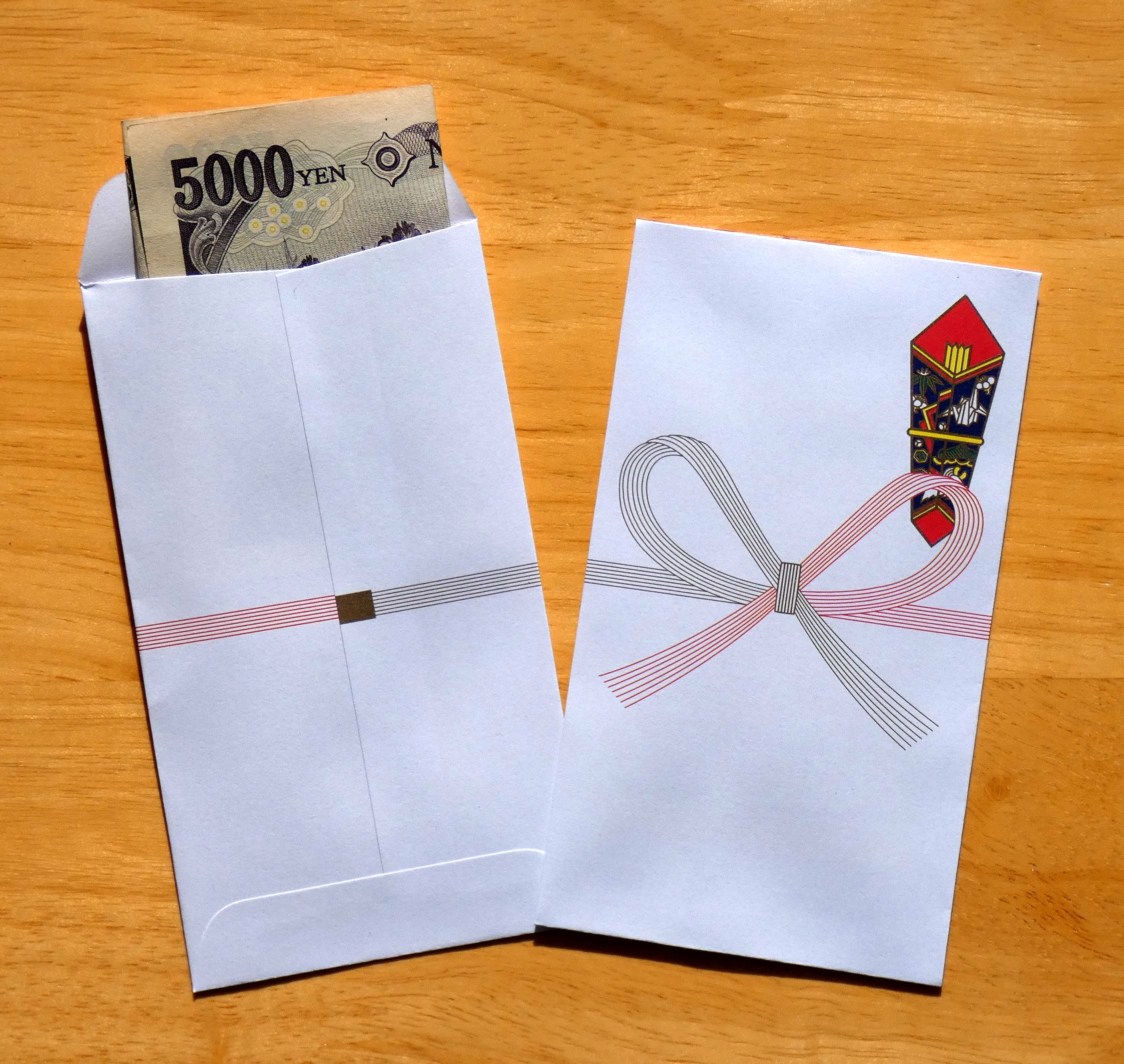 Envelopes of Otoshidama (New Year's money) in Japan